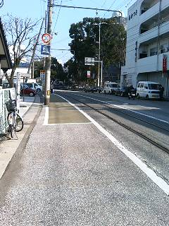 Tosa Electric Railway Asakuraekimae Stop